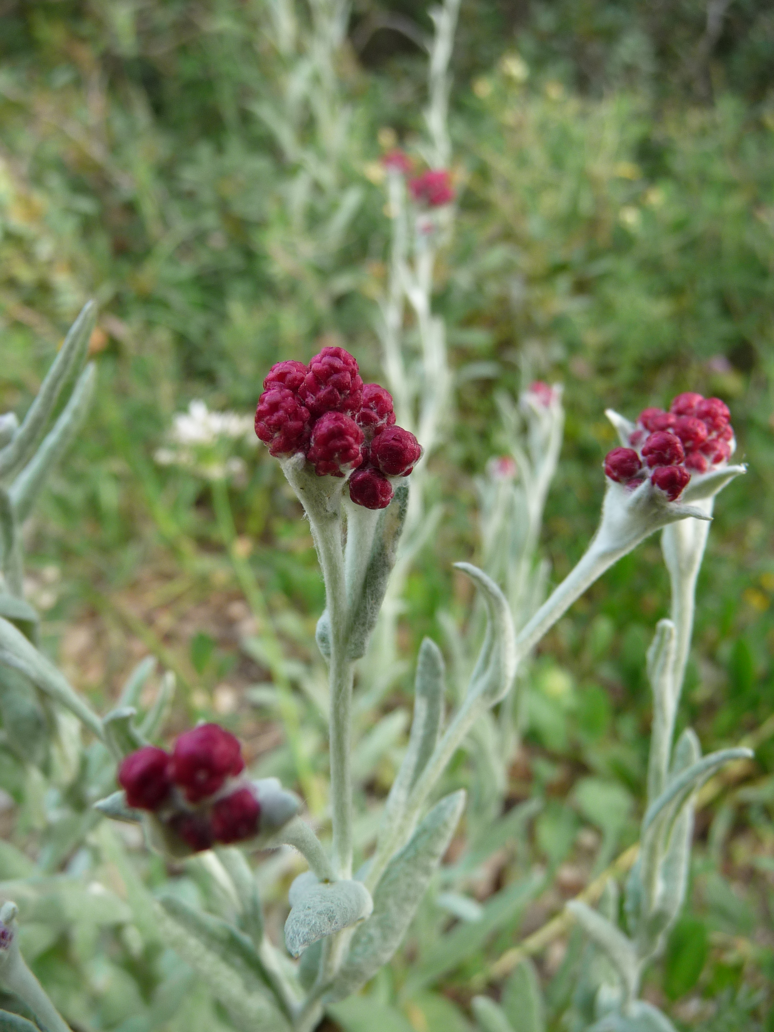 Carmel Park